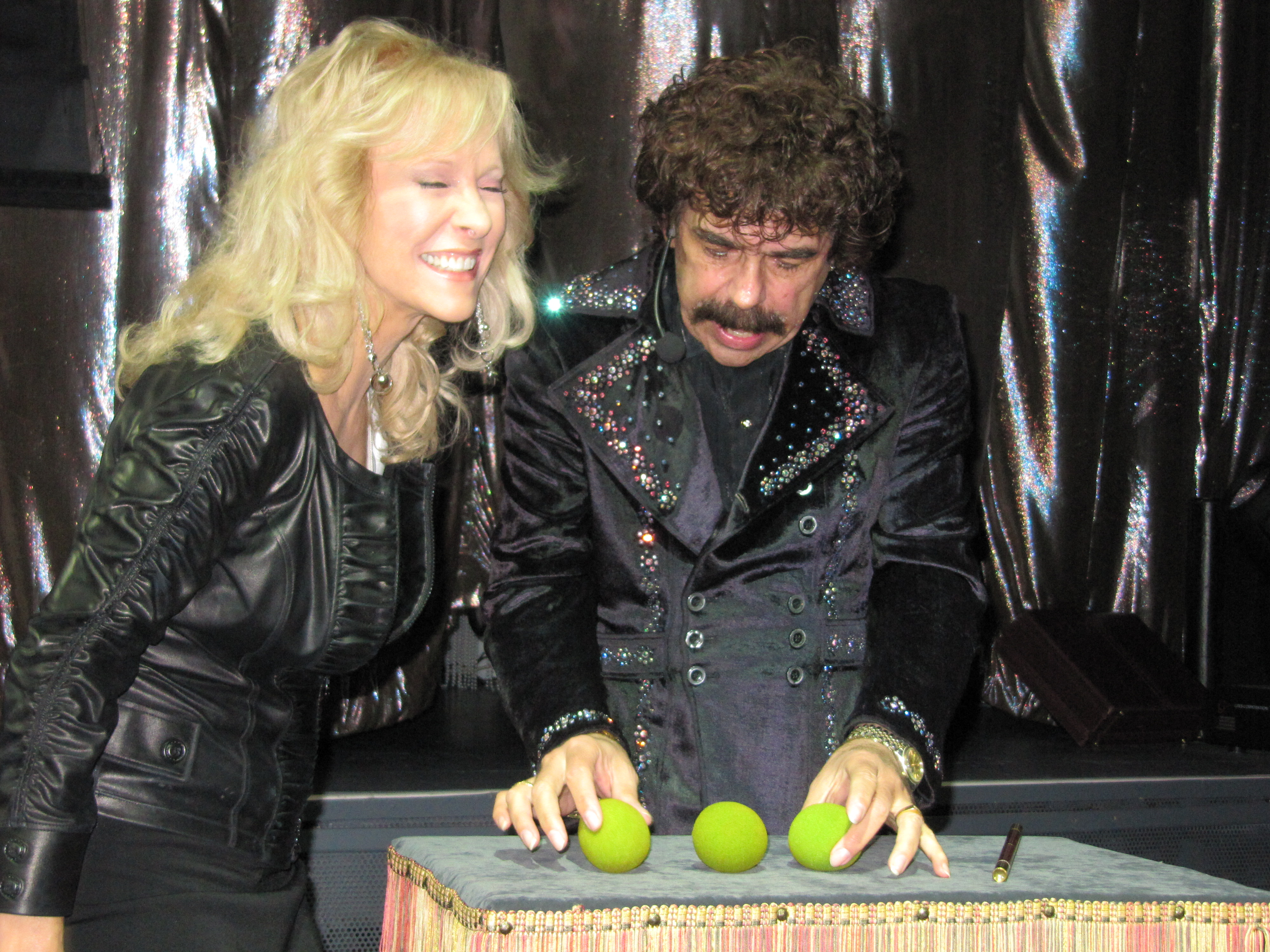 Steve Dacri performs at the Hilton Shimmer Room with his "Martians", Las Vegas, 2010. Photograph by Patty Mooney, New & Unique Videos, San Diego, California